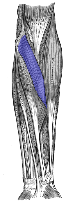 I created this file using GIMP from a Gray's Anatomy plate.